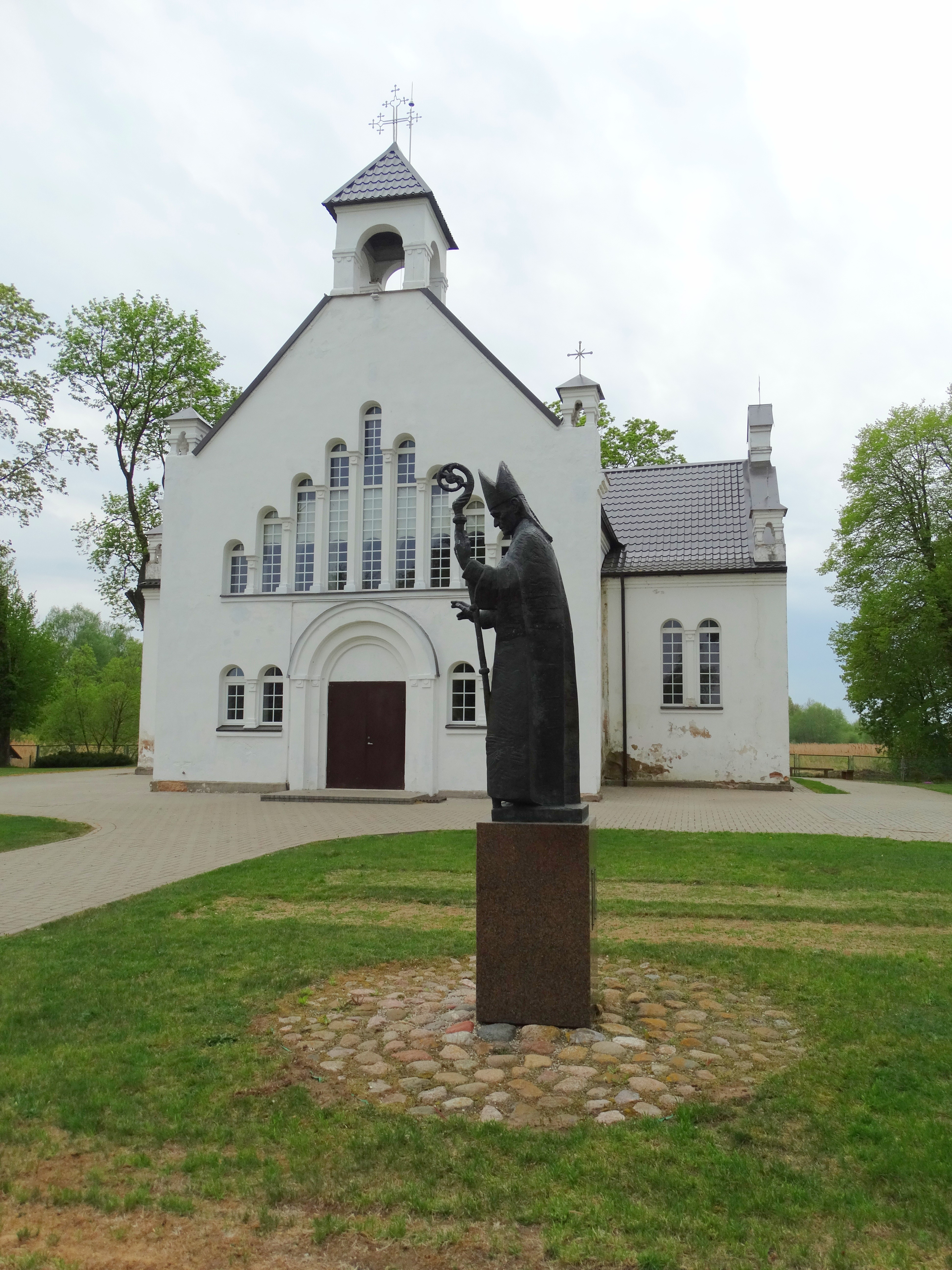 Monument to Kazimieras Paltarokas, Pamūšis (Klovainiai), Pakruojis District, Lithuania